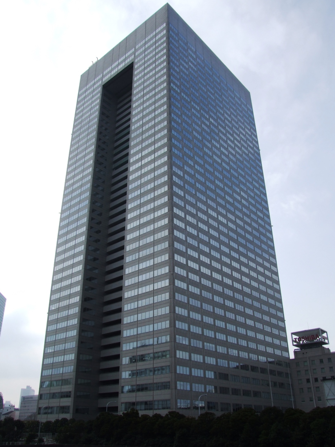 TOSHIBA Building, Minato, Tokyo, Japan